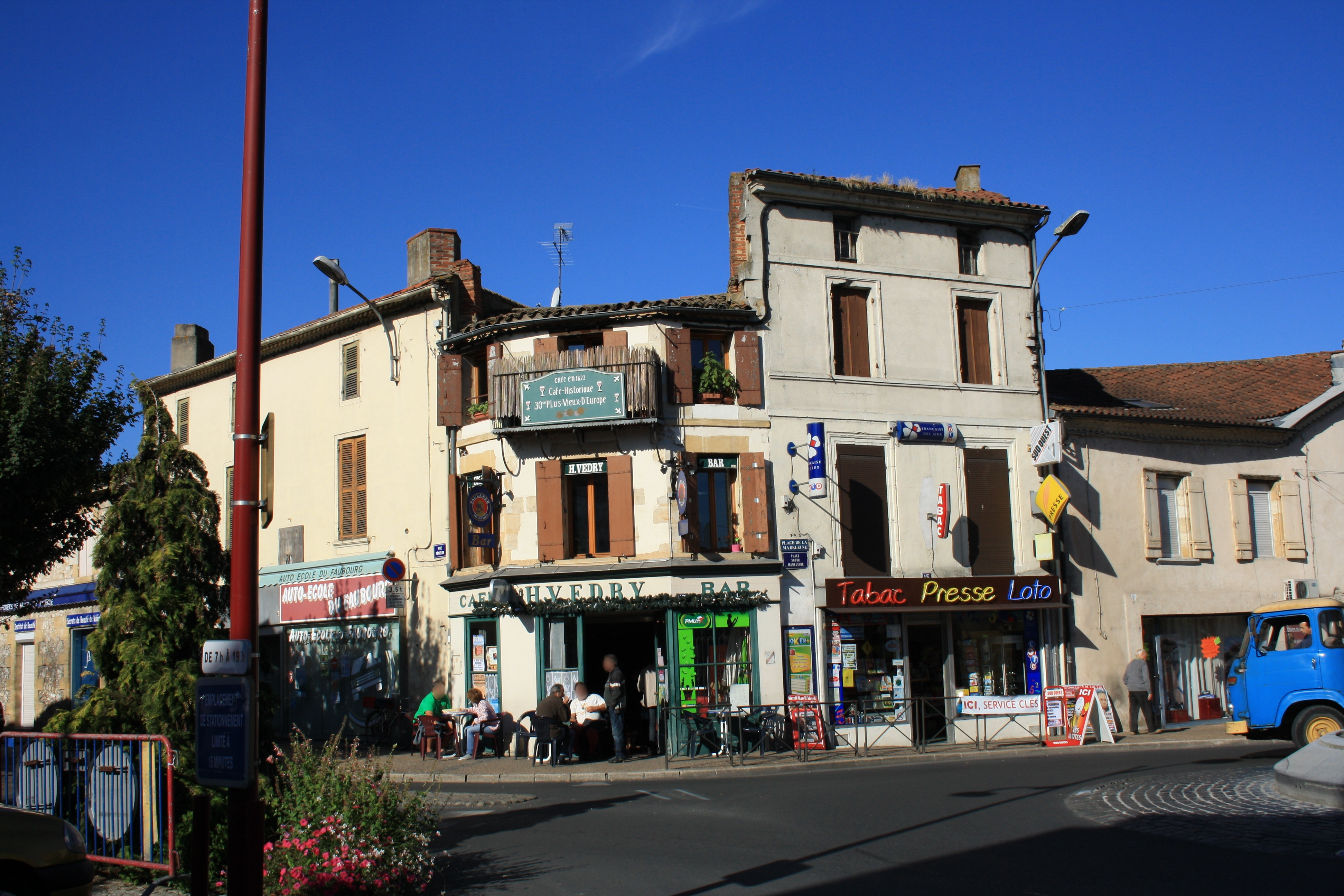 Place de la Madeleine in Bergerac, Dordogne, France.